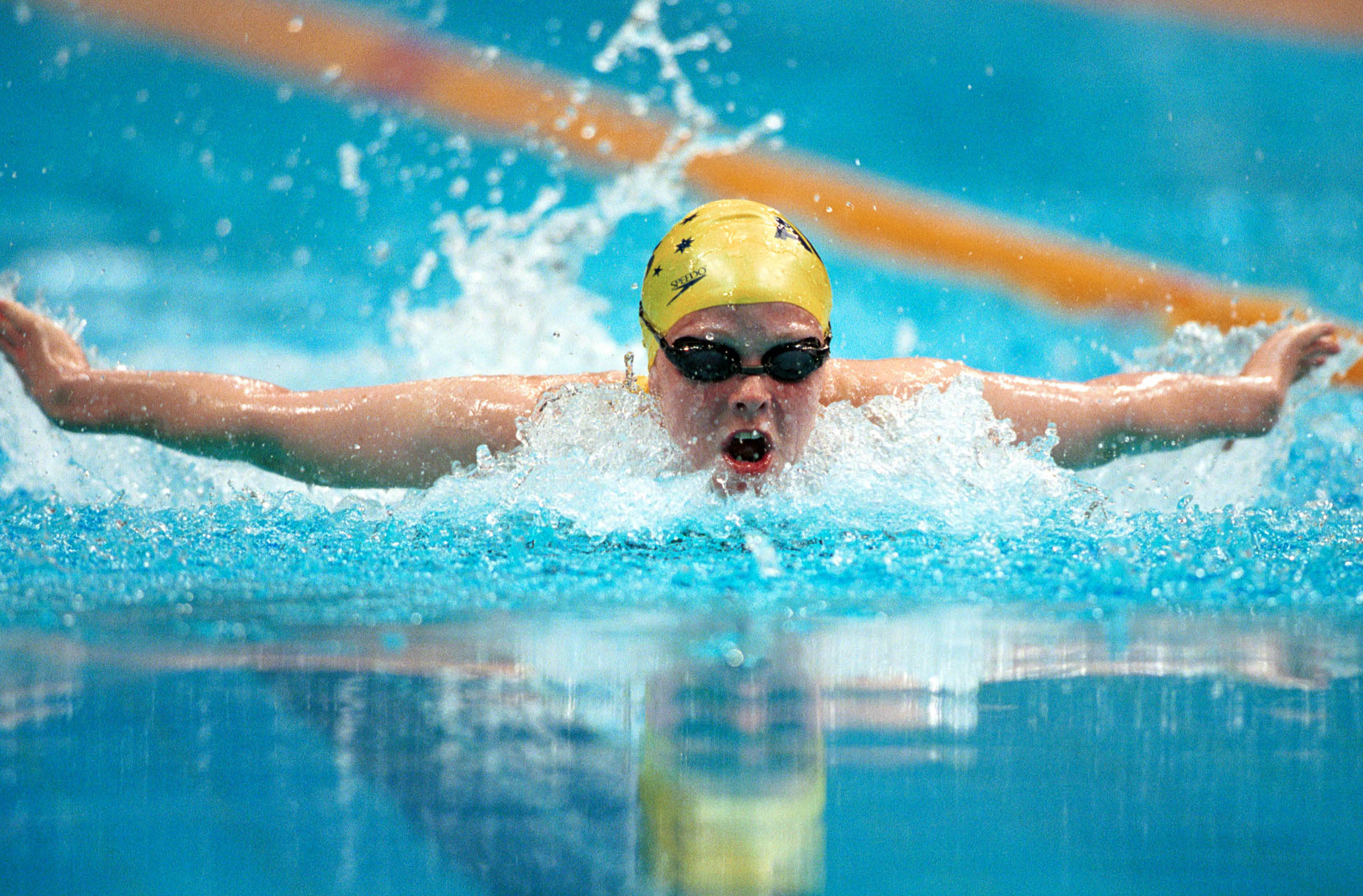 Action shot of Australian swimmer Siobhan Paton in the pool during Day 03 of the 2000 Sydney Paralympic Games